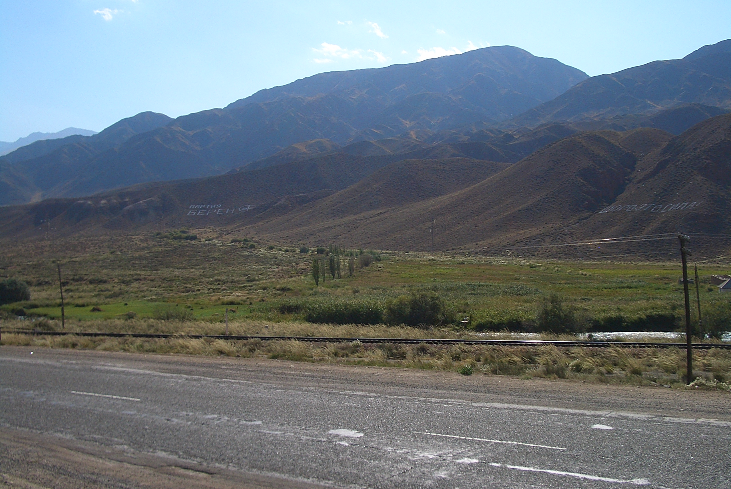 Looking south from a rest stop in the Boom Gorge area (Issyk Kul Province).